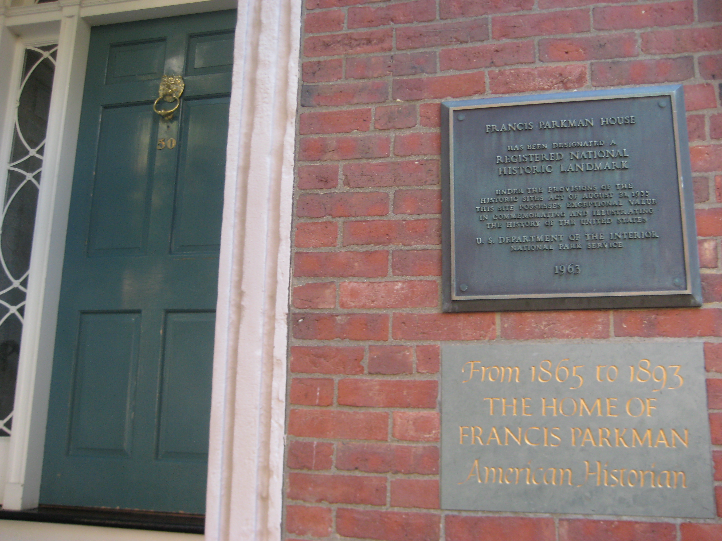 The Francis Parkman House — at 50 Chestnut Street, on Beacon Hill, Boston, Massachusetts. On the National Register of Historic Places in Boston. October 2007 photo by John Stephen Dwyer